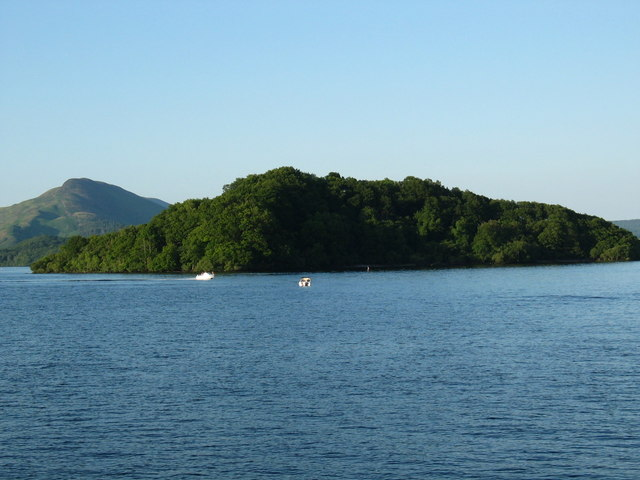 Creinch, small island on Loch Lomond. Creinch (Scottish Gaelic: Craobh-Innis - Tree Island).